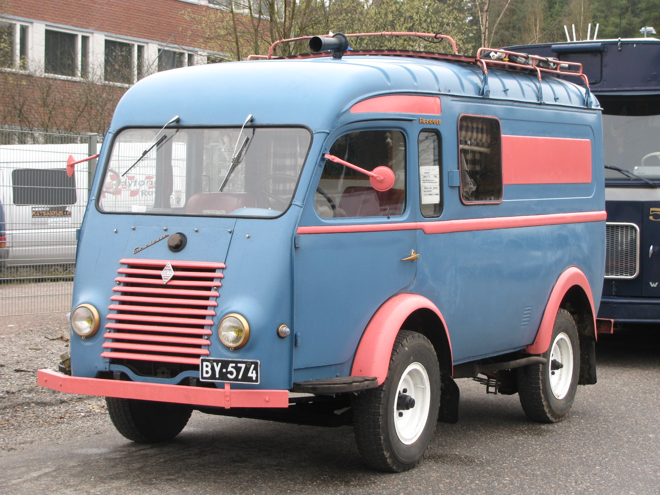 Renault van, Classic Motor Show parking lot in Lahti, Finland.